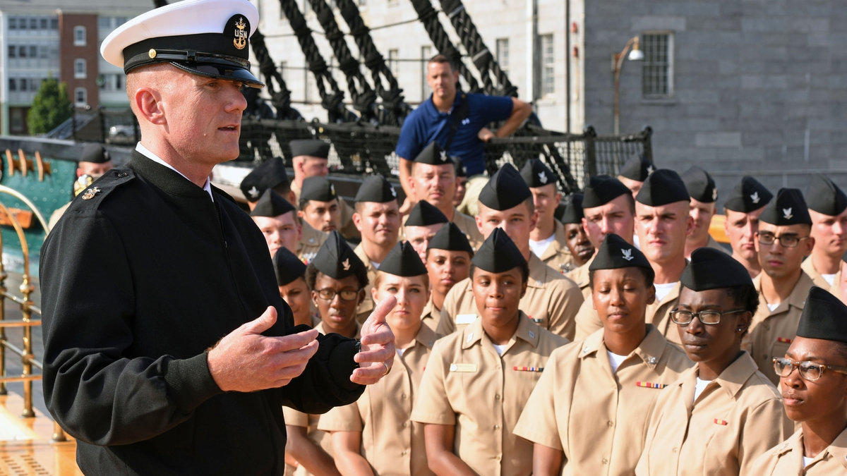 160908-N-OT964-157 BOSTON (Sept. 8, 2016) Master Chief Petty Officer of the Navy (MCPON) Steven Giordano speaks with sailors during an all hands call as part of his visit to USS Constitution. The ship, nicknamed 'Old Ironsides', is the oldest commissioned ship in the Navy, and was Giordano's first visit as the 14th MCPON. Chief of Naval Operations (CNO) Adm. John Richardson was also present with Giordano during the call. (U.S. Navy photo by Mass Communication Specialist 1st Class Martin L. Carey/Released)